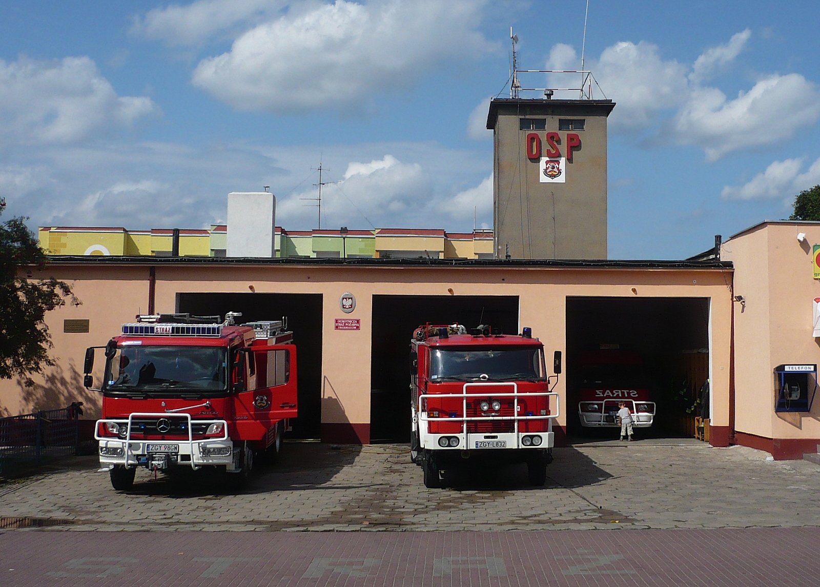 Fire-station in Trzebiatów, Poland